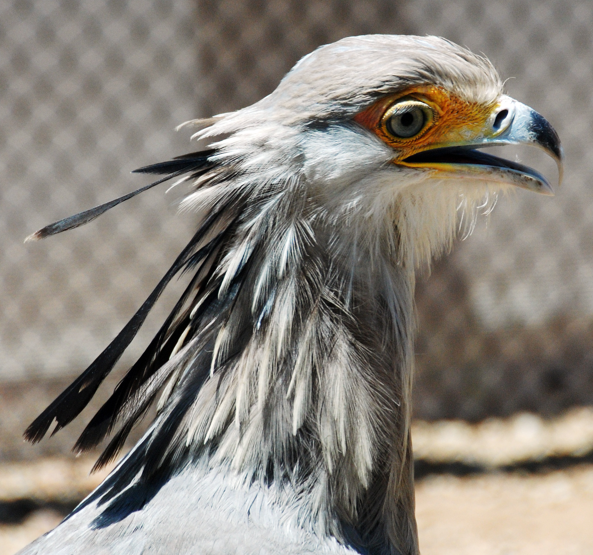 Secretary Bird at San Diego Zoo, USA. Close up of head and neck.